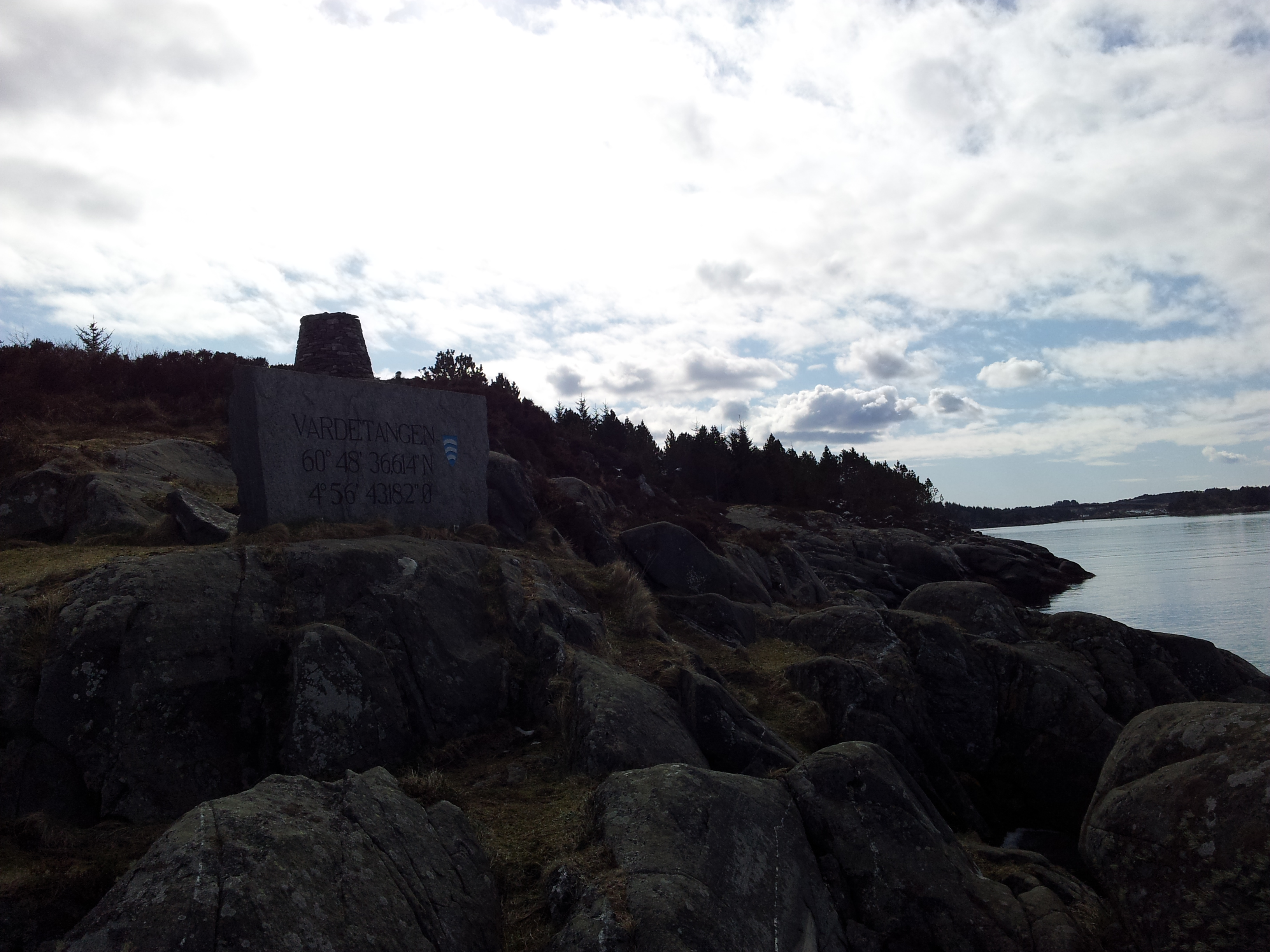 Vardetangen, Norway's westernmost point on the mainland.